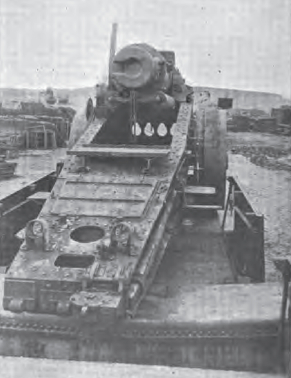 Rear view of a 17 cm SK L/40 "Samuel" showing the traversing rail